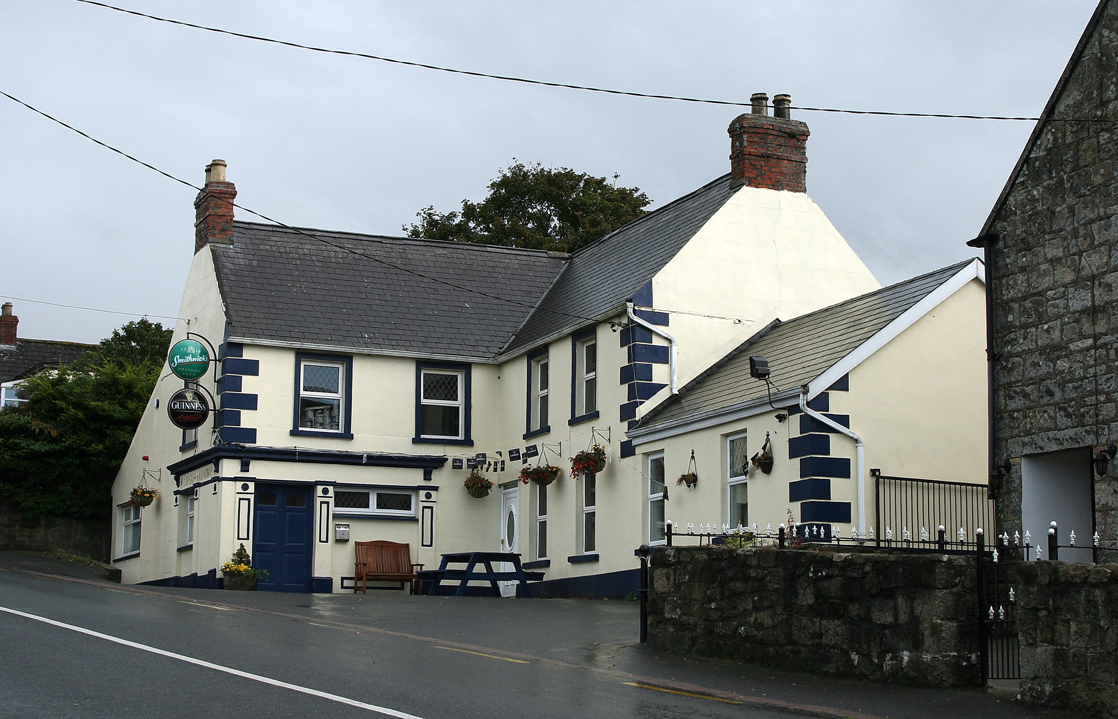 Ballymurphy, County Carlow, near to Ballymurphy, Kyle Cross Roads, Tinnacarrig and Lissalican, Carlow, Ireland. On the R702.